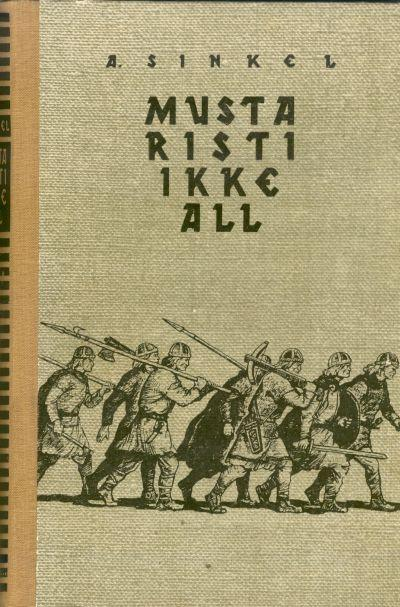 Aristarch Sinkel's "Musta risti ikke all" book cover page